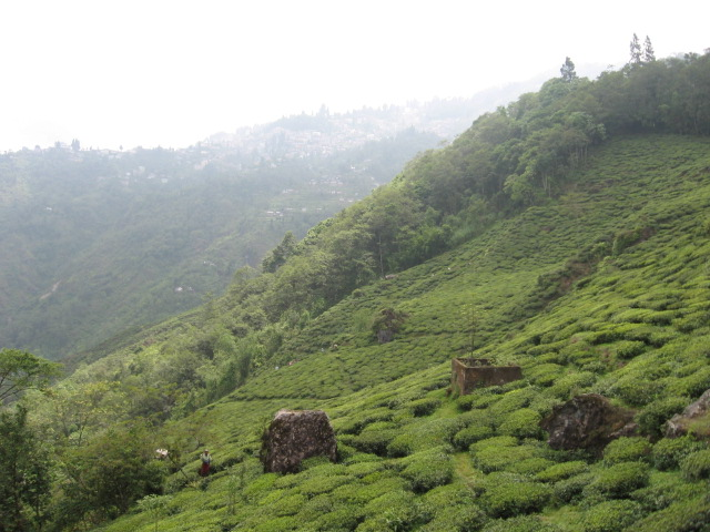 Darjeeling:Tea Garden on way to Rock Garden